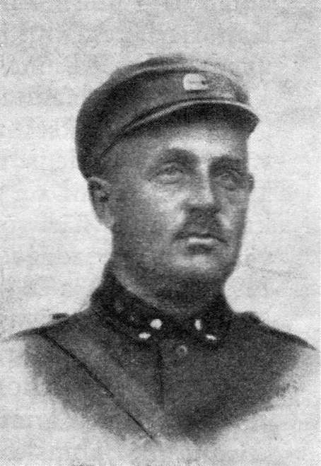 Lieutenant Richard Lessel, the commander of 6th Battery, 1st Artillery Regiment.